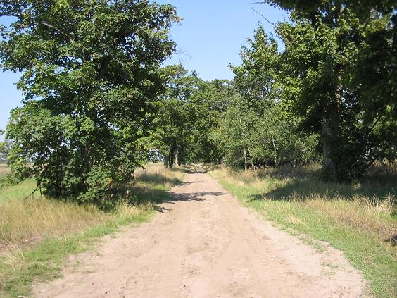 Typical dirt road in the Teltow, Brandenburg, Germany, between the villages Nudow (Nuthetal municipality) and Schenkenhorst (Stahnsdorf municipality).